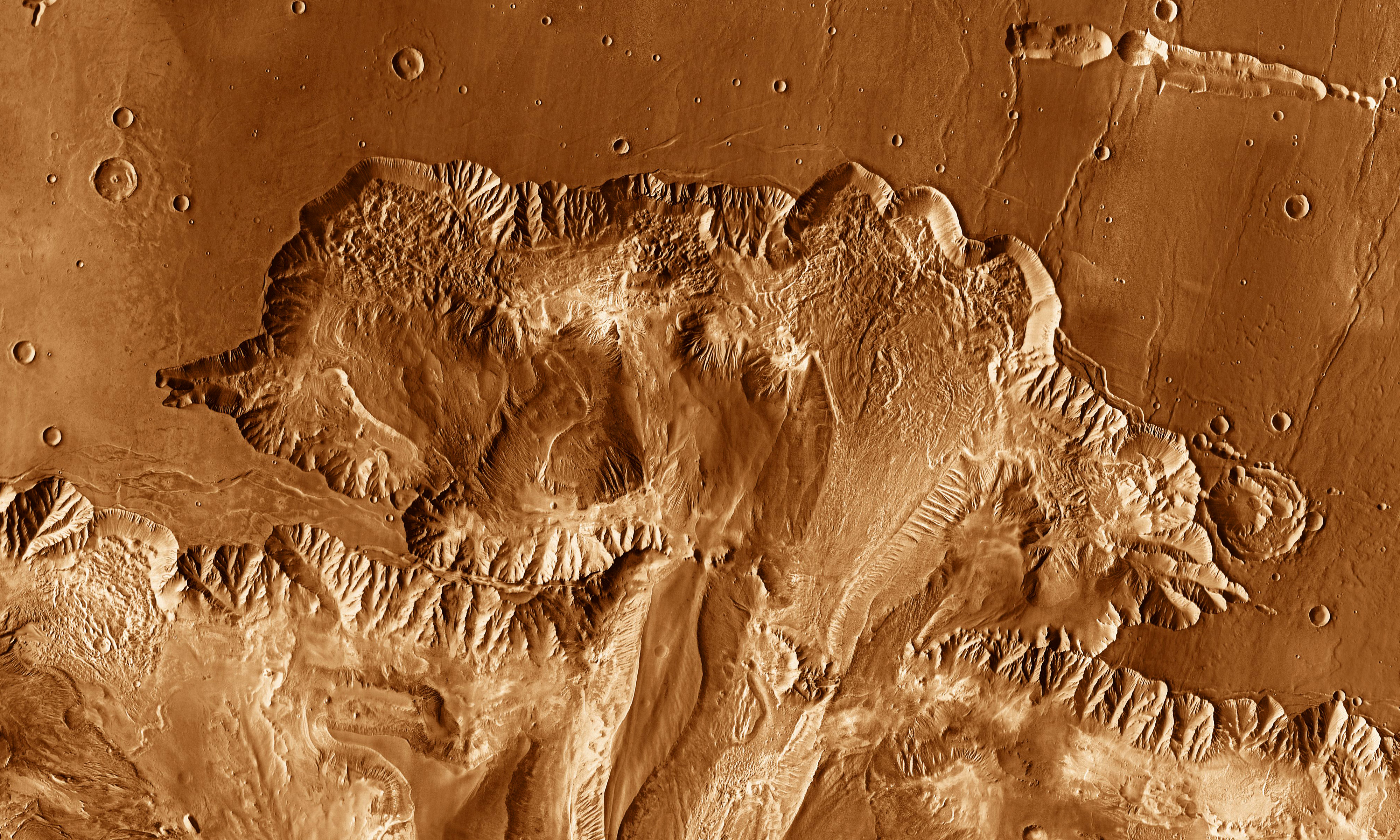 View of Ophir Chasma, with a portion of Candor Chasma at the bottom, parts of the enormous Valles Marineris canyon system on Mars. This image was obtained by cropping a massive 23,711 × 11,856 pixel mosaic of NASA images, and adjusting in hue and saturation. The original caption for the mosaic reads in part as follows: This mosaic image of Valles Marineris - colored to resemble the martian surface - comes from the Thermal Emission Imaging System (THEMIS), a visible-light and infrared-sensing camera on NASA's 2001 Mars Odyssey orbiter. Mars Odyssey was built by Lockheed Martin and the mission is operated by the Jet Propulsion Laboratory. Built from more than 500 daytime infrared photos, the mosaic shows the whole valley in more detail than any previous composite photo. Despite the valley's huge extent - including its western extension through Noctis Labyrinthus, it reaches some 3,000 kilometers (2,000 miles) long - the smallest details visible in the image are about the size of a football field: 100 meters (328 feet).